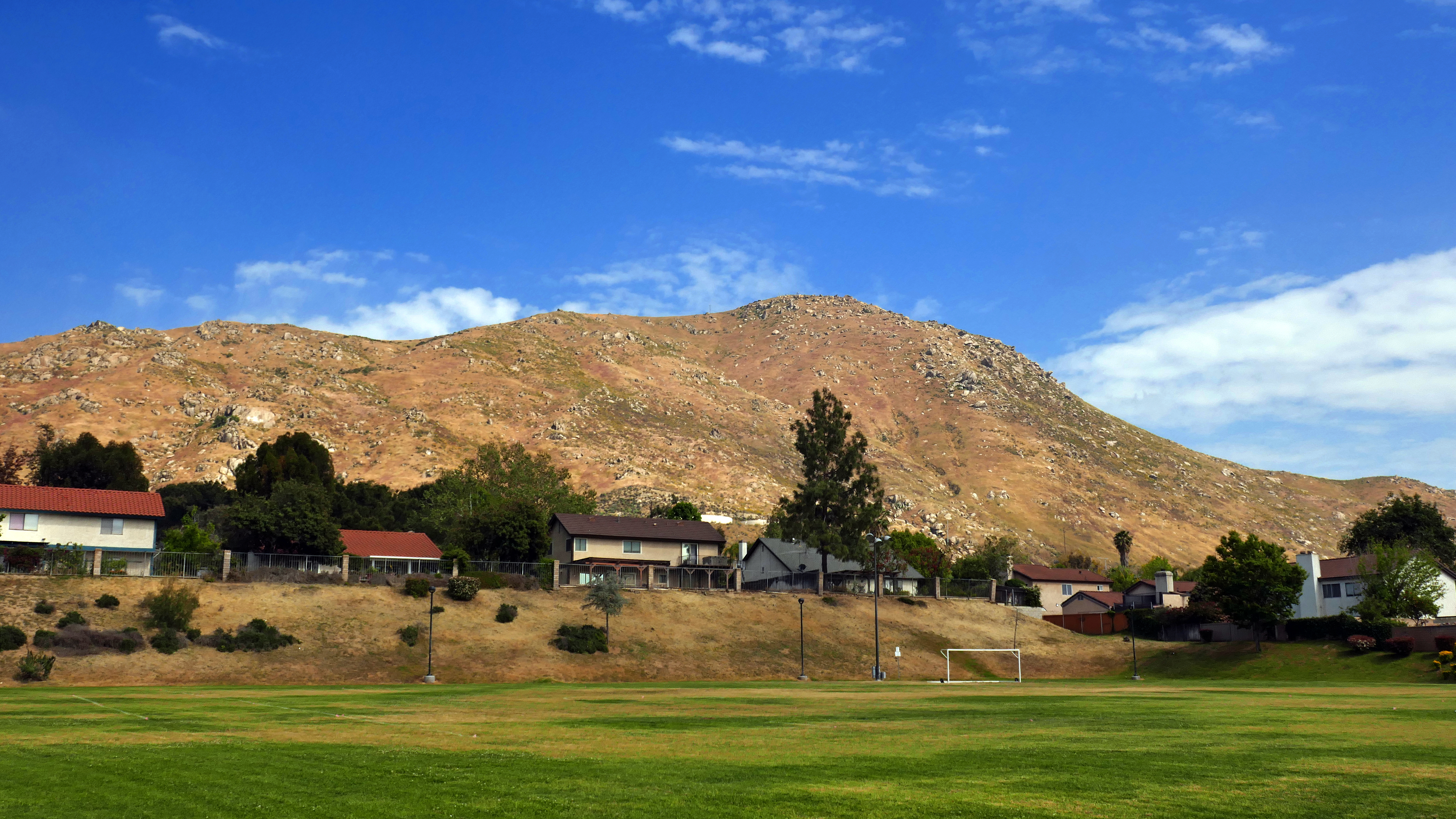 Blue Mountain, seen from Grand Terrace, is a 2,428-foot peak in the Inland Empire of California.